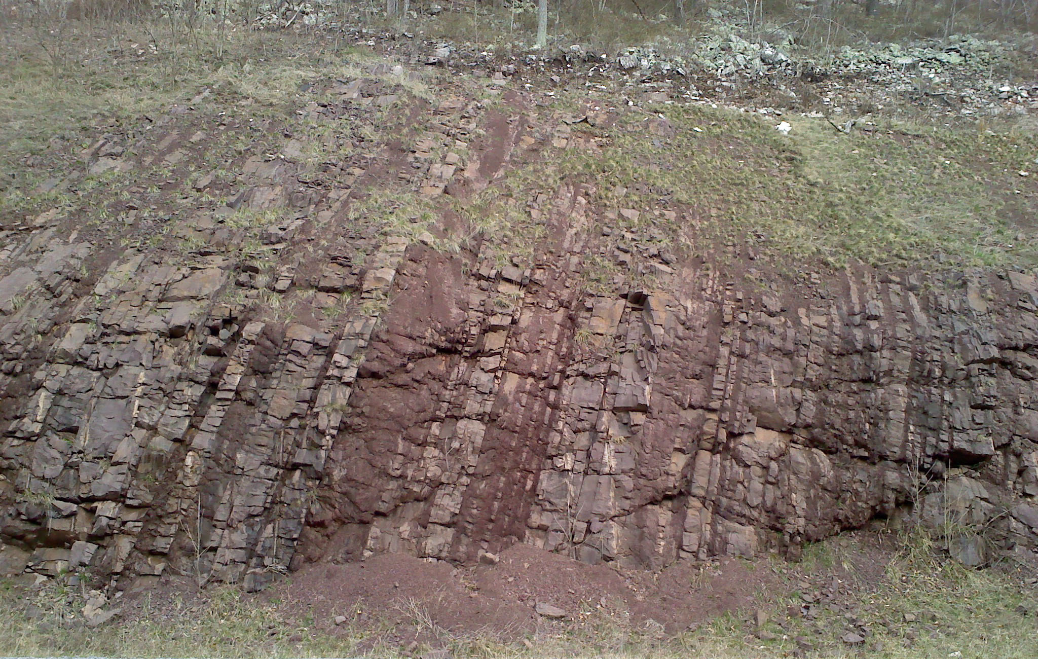 Outcrop of Juniata Formation on U.S. Route 522 at Blacklog Narrows southeast of Orbisonia, Pennsylvania. Bedding is nearly vertical and statigraphic up is to the left. Facing north. April 3, 2011.